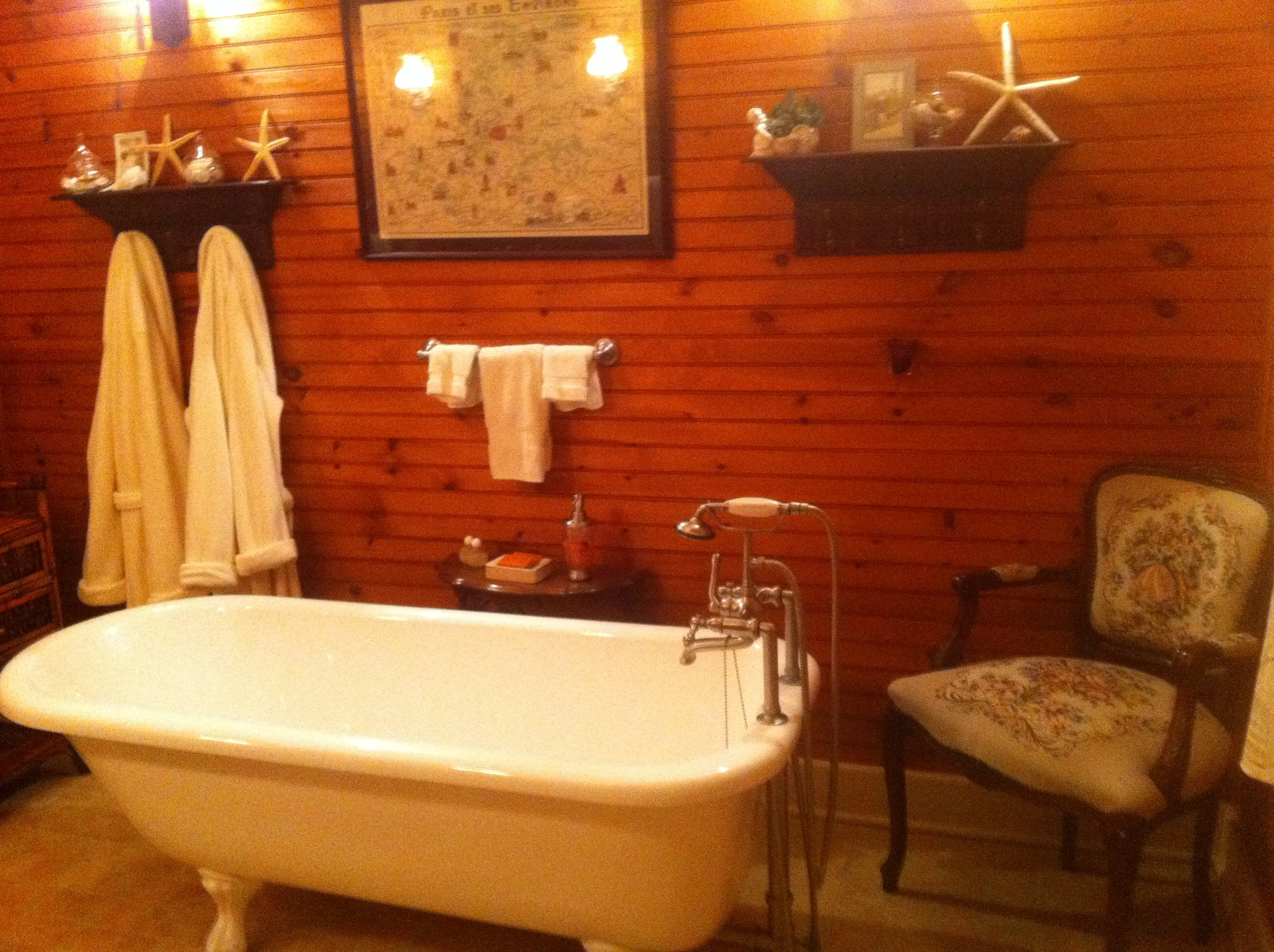 Central Hotel, New Haven, MO. Bathroom has old style clawfoot bathtub. I don't get points for this one, but it's worth it.